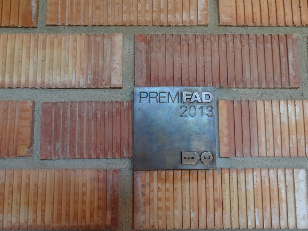 EspaiTransmissorSero2